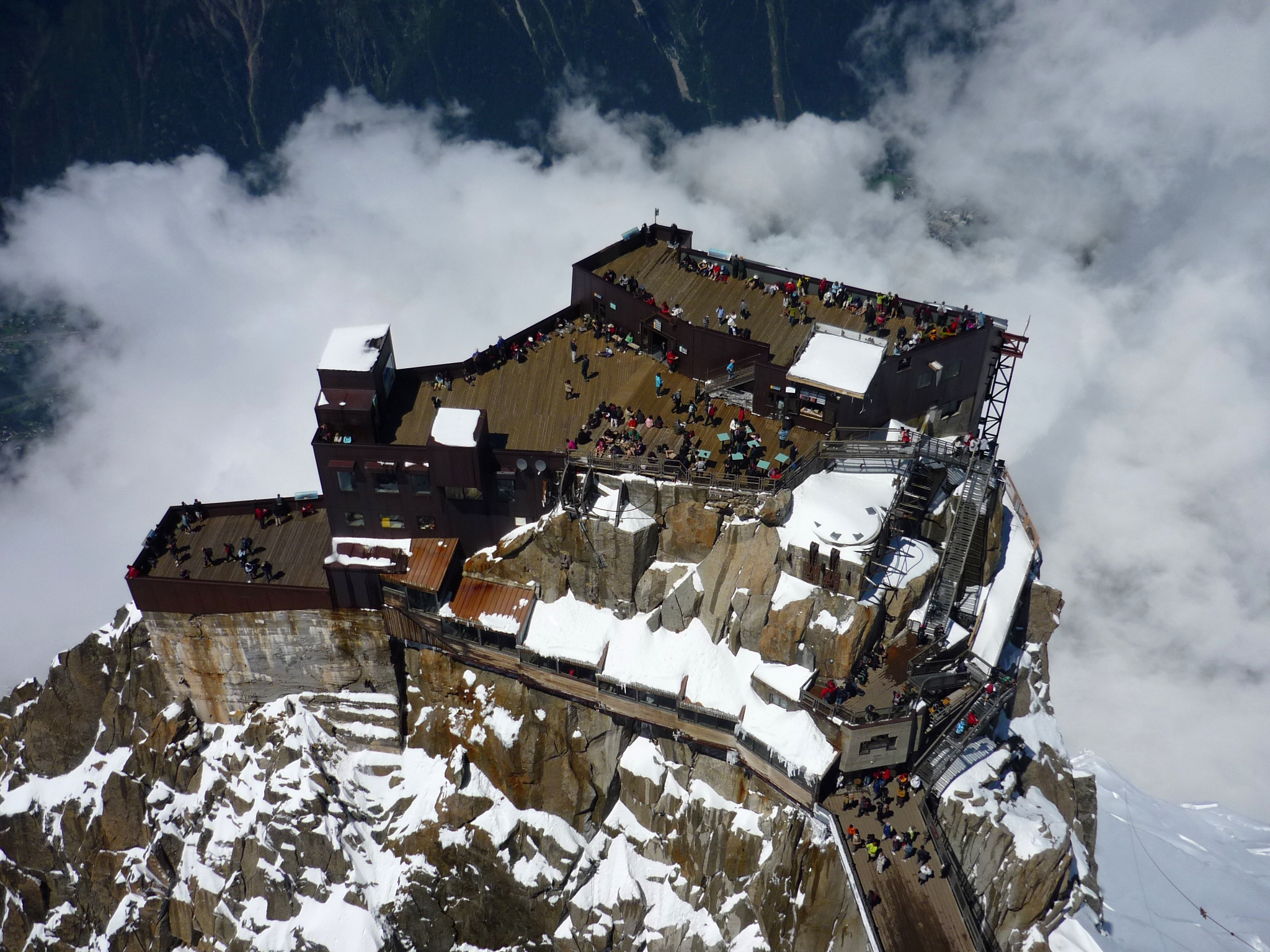 Aiguille du Midi, Chamonix, Haute-Savoie, France